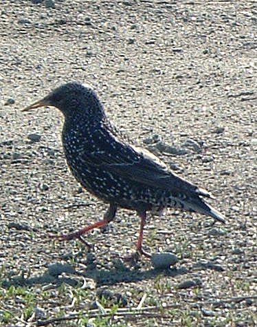 Description EN: Starling Description RU: Скворец Date: 22/04/2005 Author: Alexander Chupryna License: GFDL